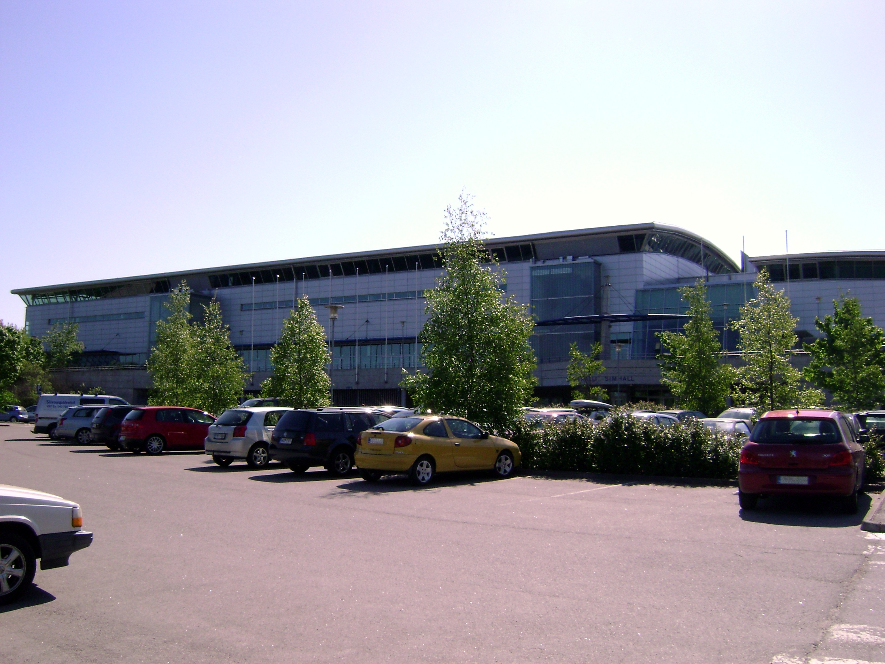 Mäkelänrinne swimming centre in Helsinki, Finland